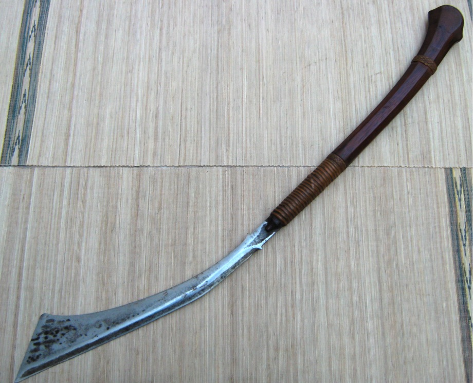 The blade is a panabas of the Moro people of southern Philippines. The age of the subject example is estimated to be about 50 years old. Rattan bindings serve as the ferrule. Overall length: 840 mm (33.1 inches); Blade length: 412 mm (16.2 inches); Maximum blade thickness: 6.5 mm (1/4 inch) Other uploaded materials by the same author are here: (a) Luzon weapons; (b) Visayan weapons; (c) Moro weapons; and (d) Lumad (non-Moro Mindanao) weapons